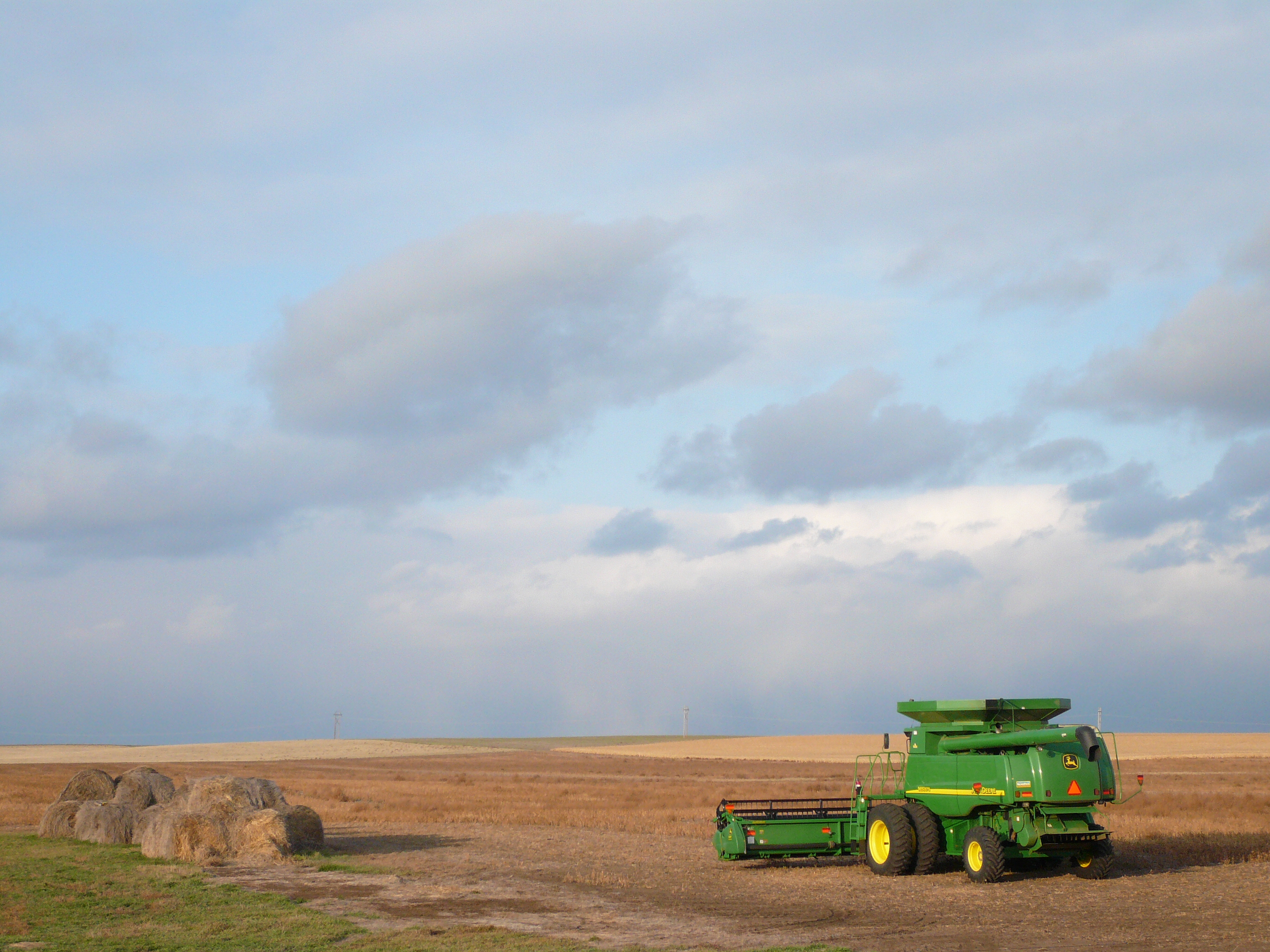 A John Deere combine harvester, South Dakota, USA; some older straw bales on the left